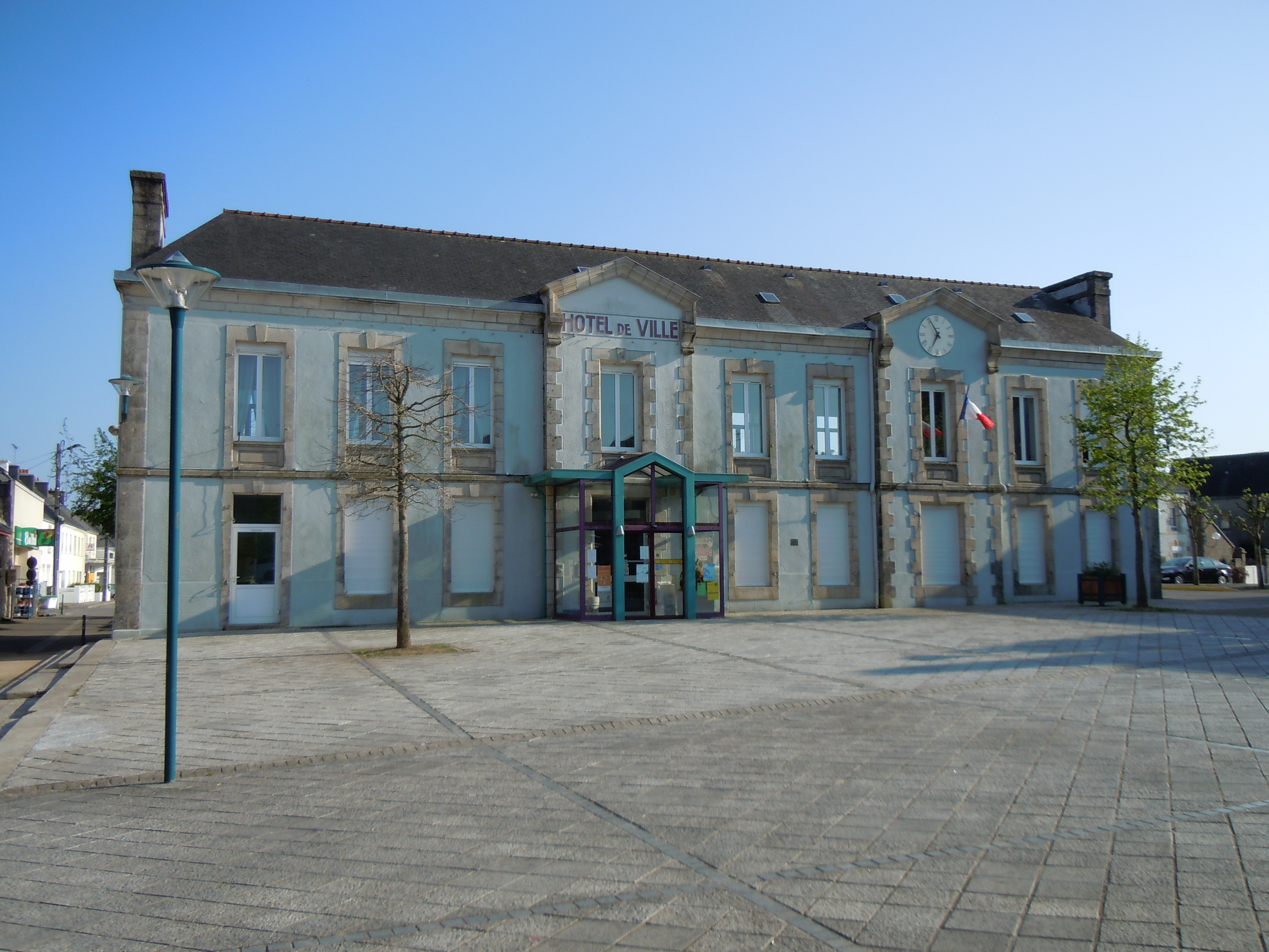 City Hall in Scaër, Brittany, France